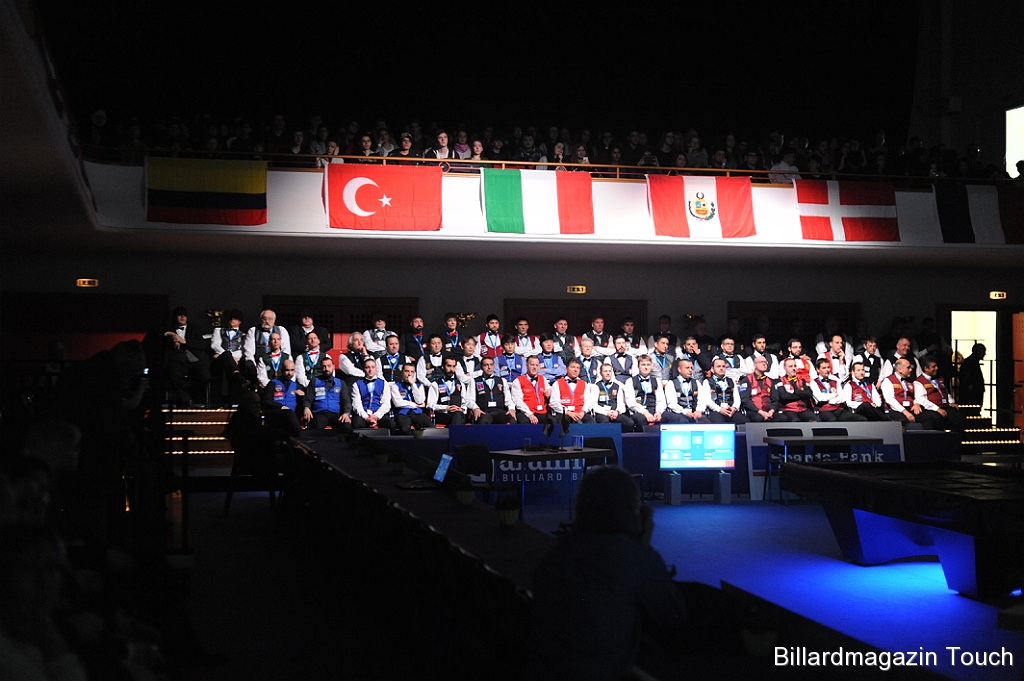 Opening ceremony with all participiants